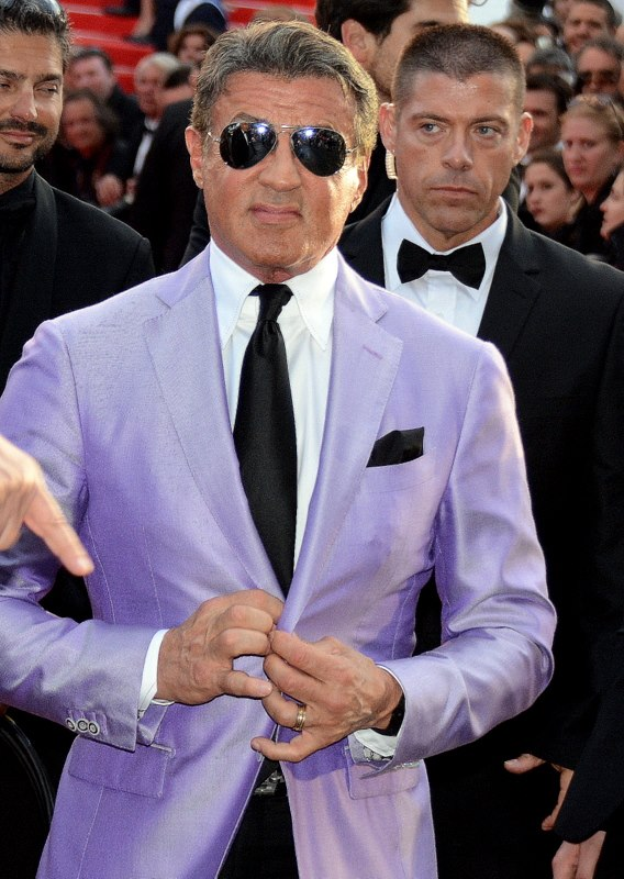 Sylvester Stallone at the Cannes Film Festival